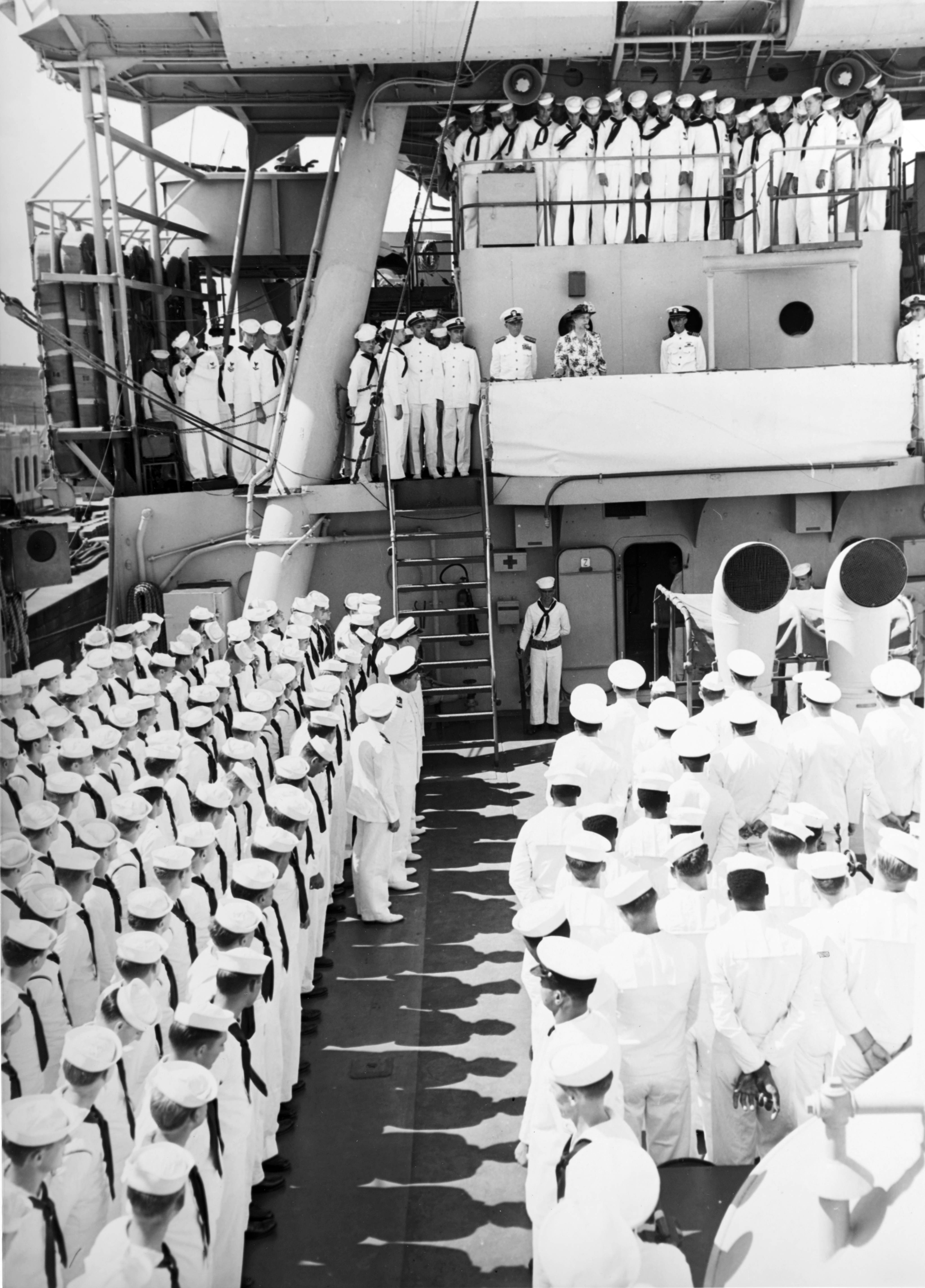 Eleanor Roosevelt (standing, upper right center) addresses the crew of the U.S. Navy light cruiser USS Omaha (CL-4) on 16 March 1944. Standing beside her, to the left, is Rear Admiral Oliver M. Read, USN, Commander Surface Patrol Force (Task Force 41), U.S. Fourth Fleet.